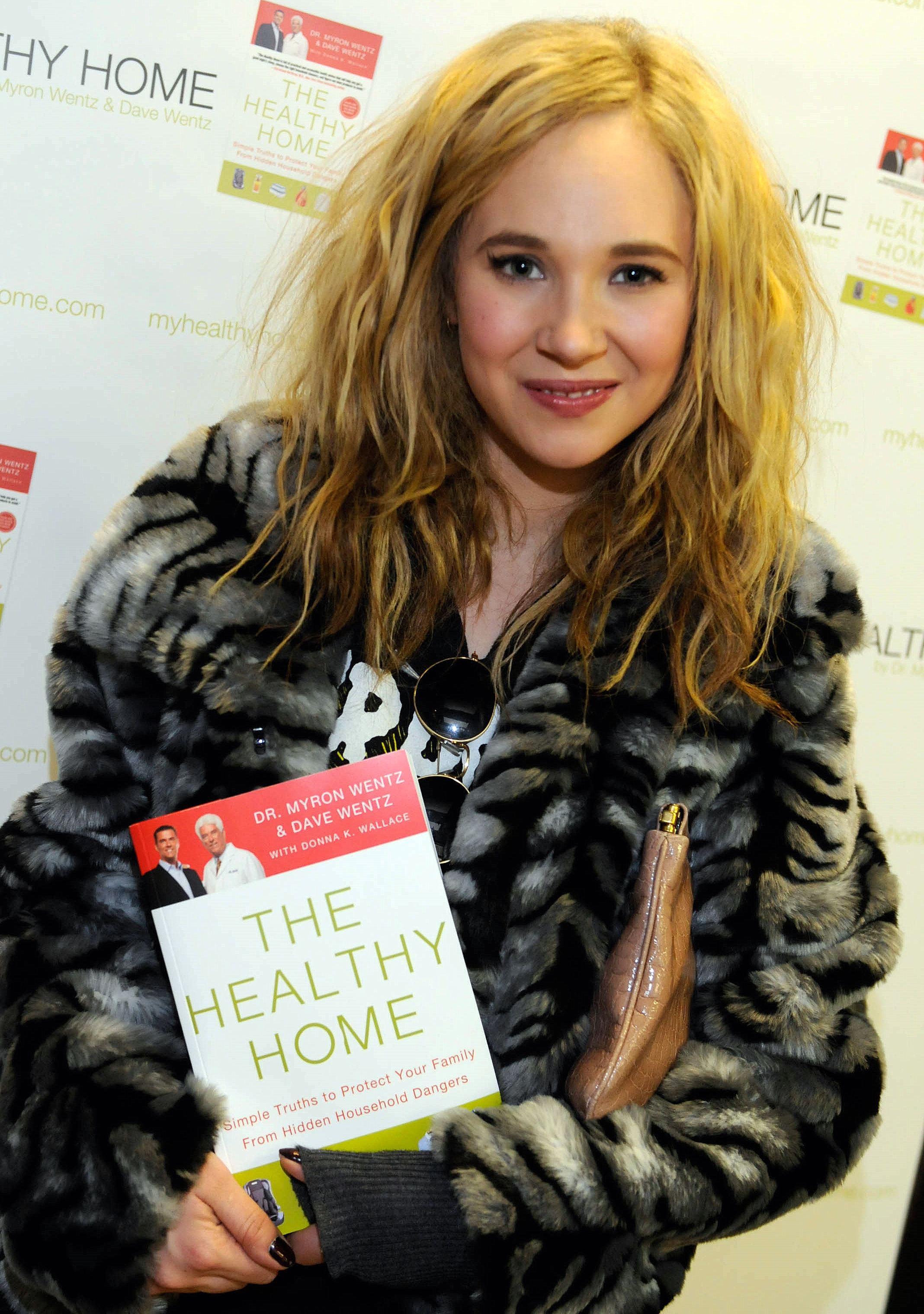 Juno Temple at the Usana gifting room at the 2011 Sundance Festival